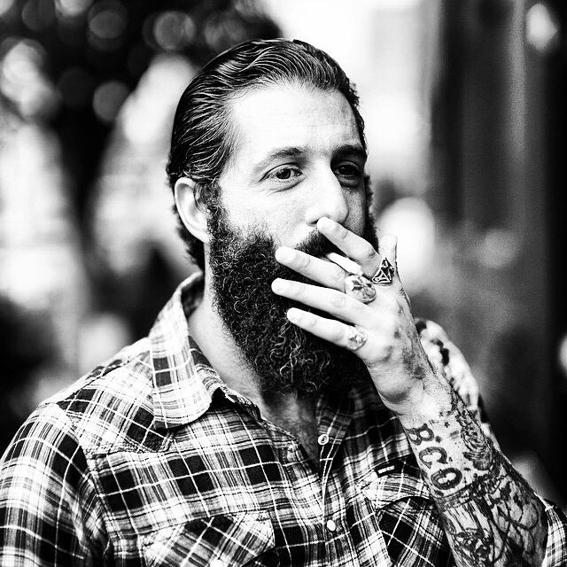 The bon vivant